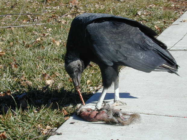 A Black Vulture (Coragyps atratus) feeding on carrion.